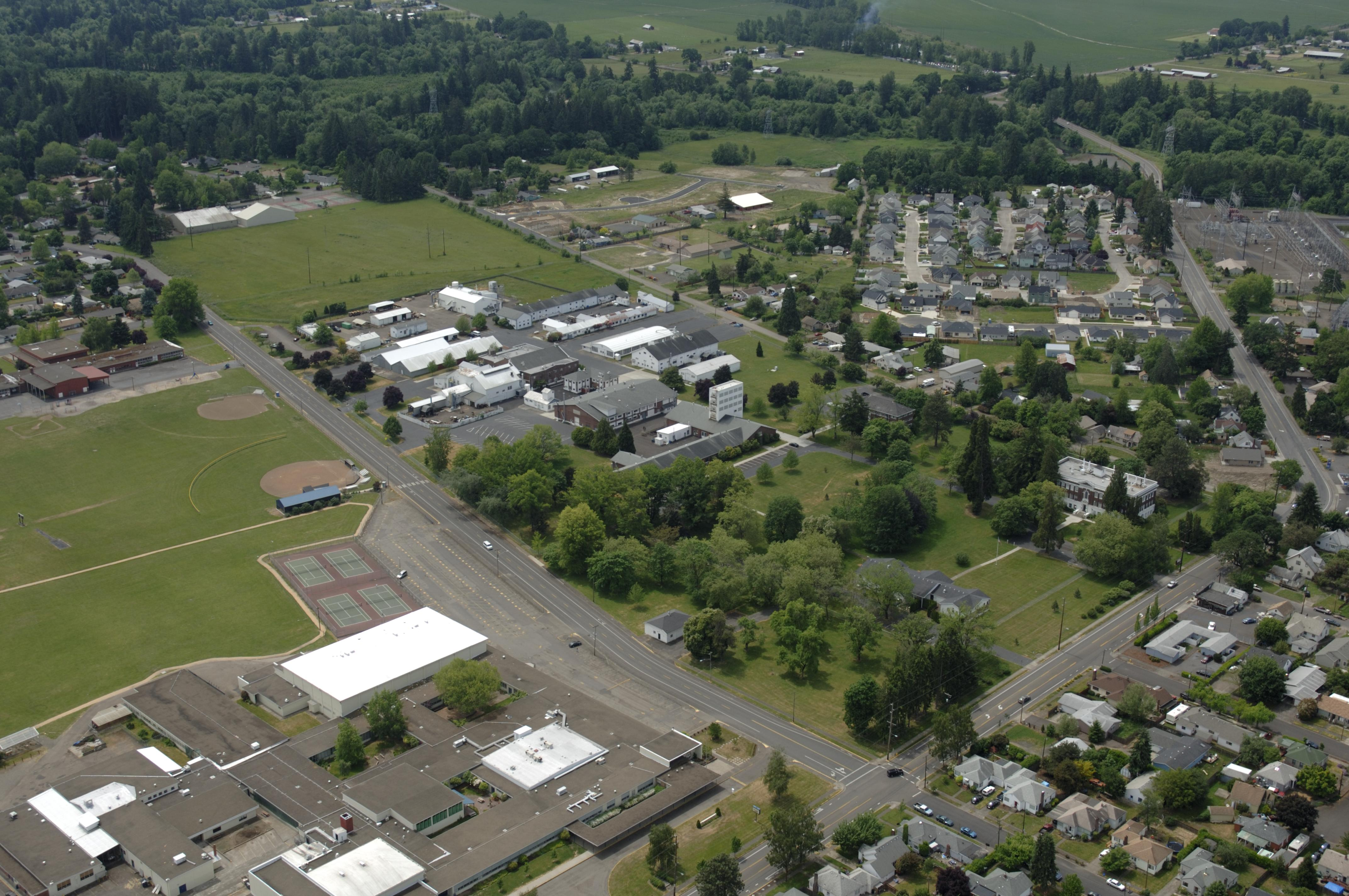 South West view of NETL Albany and surrounding area. Includes City of Albany part of the Willamette Valley.